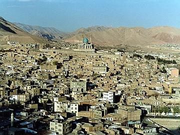 View over Sangsar